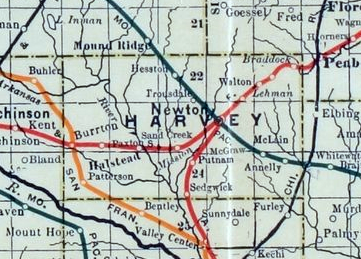 Stouffer's Railroad Map of Kansas, 1915-1918, Harvey County.